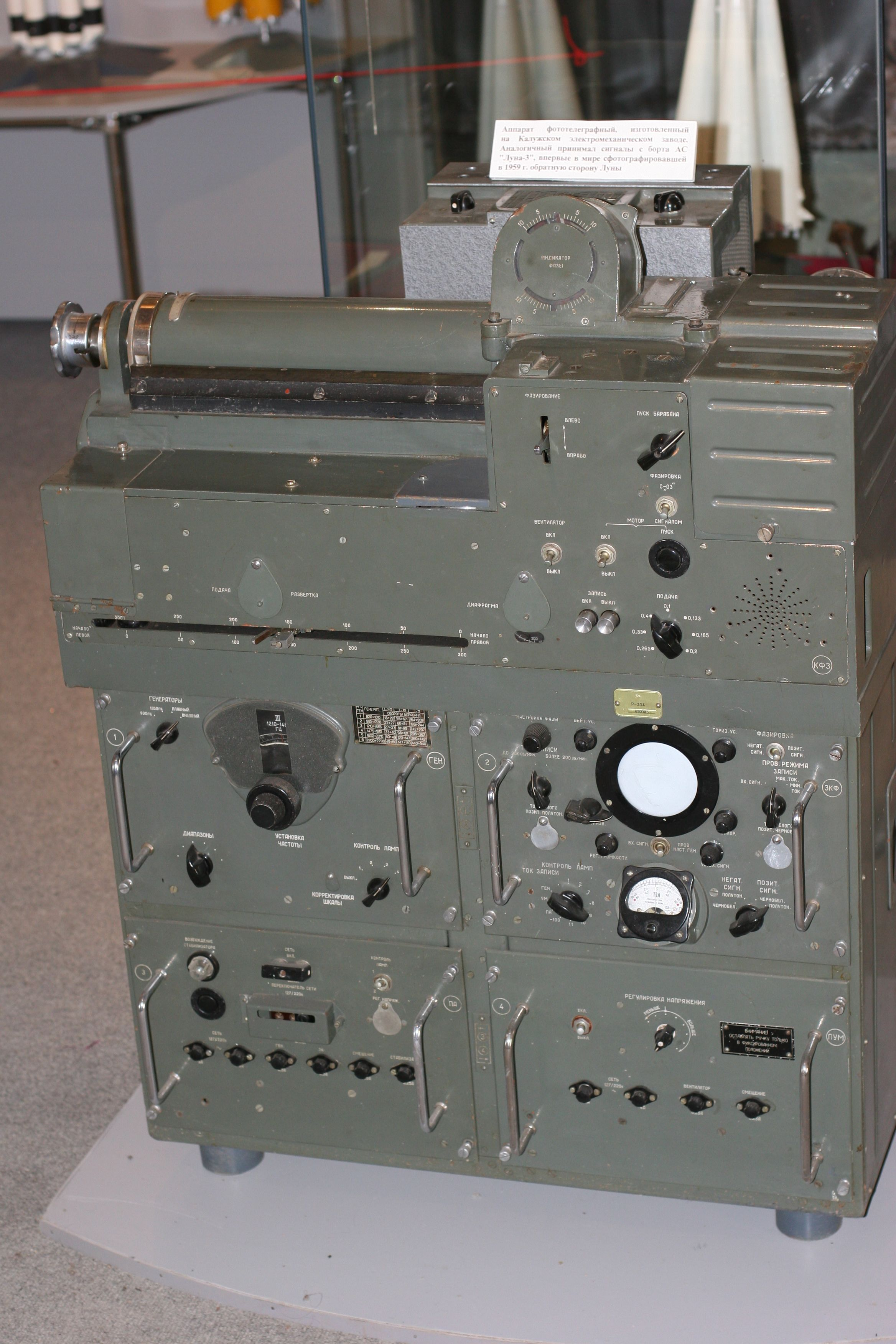 Phototelegraph designed by Kaluga Electromechanical Plant, part of Yenisey system. Similar one was used onboard Luna-3 automatic station, which took first pictures of the far side of the Moon in 1959.